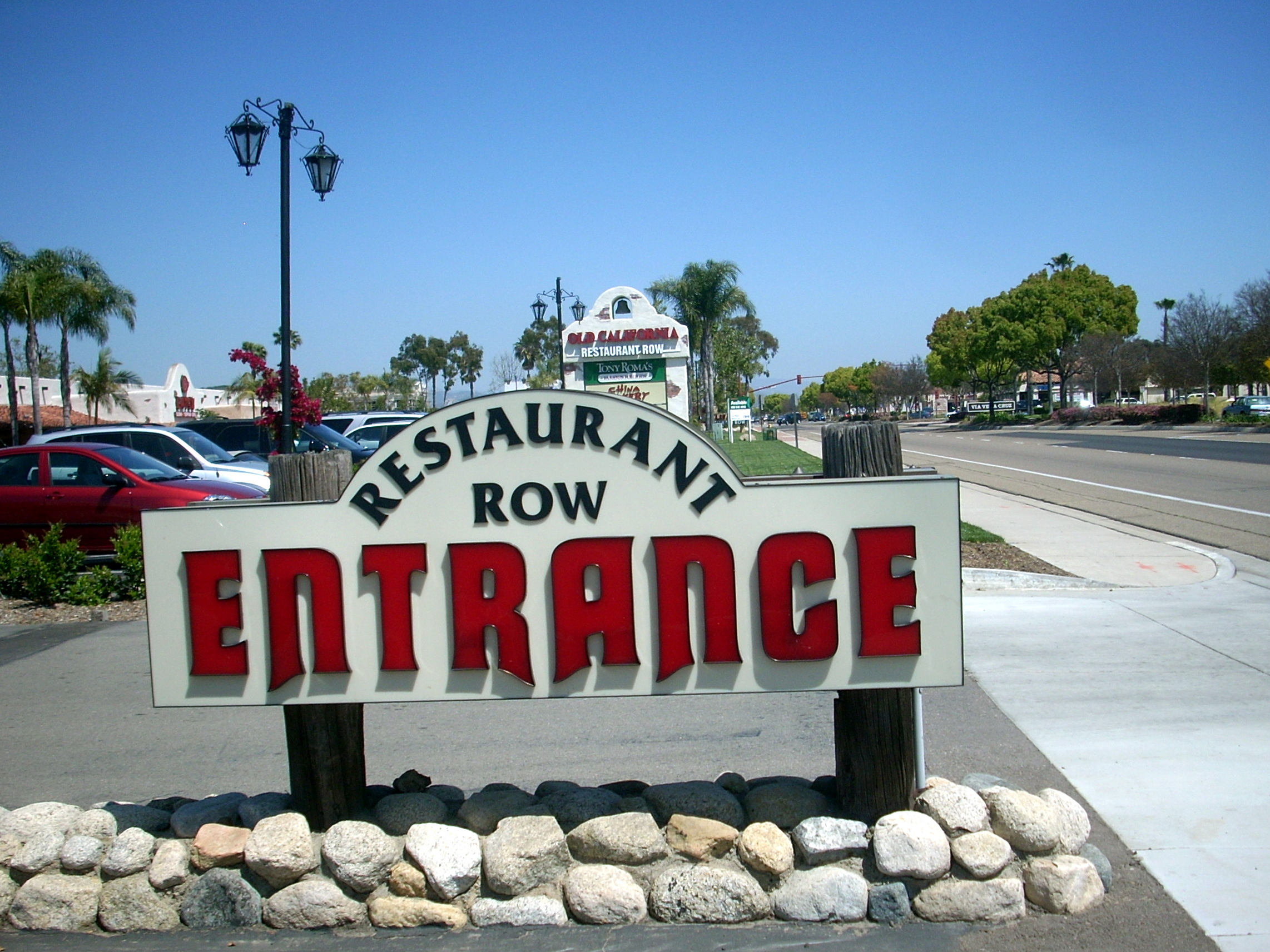 Photograph of Restaurant Row parking lot in San Marcos, California.